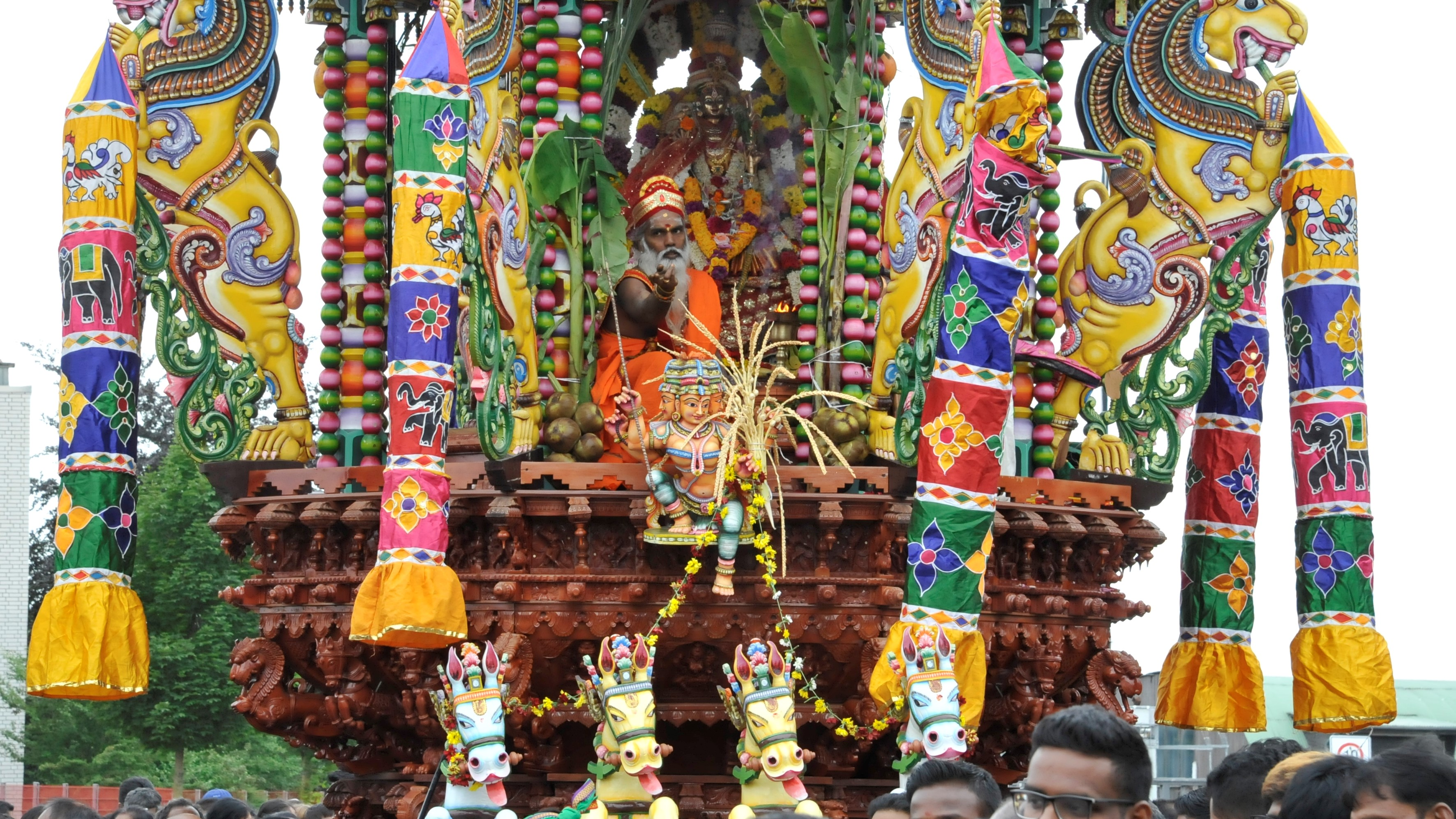 temple dare